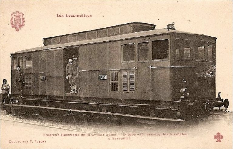 One of the nine "tractors" Bo'Bo' Ouest 5001 to 5010 (one missing ; future SNCF BB 1801 -1810) : electric vans hauling trains in 1900 between Invalides and Issy-Plaine (Paris) and to Versailles (1902). It was the 1st French line electrified, built by the Compagnie des chemins de fer de l'Ouest (bought by the Etat administration in 1909).